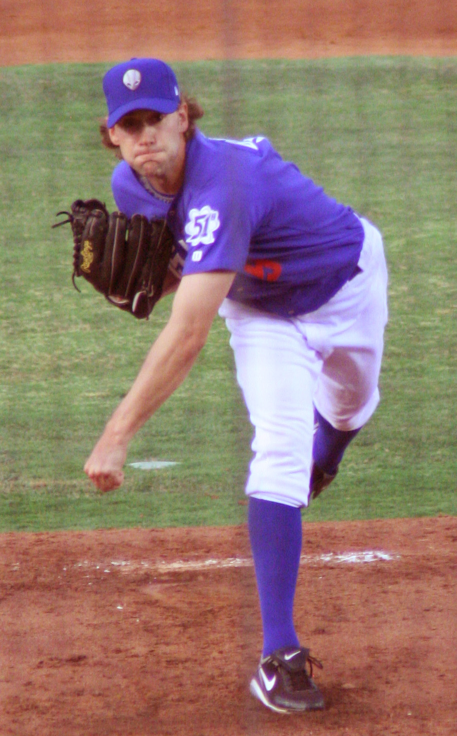 Brian Burres